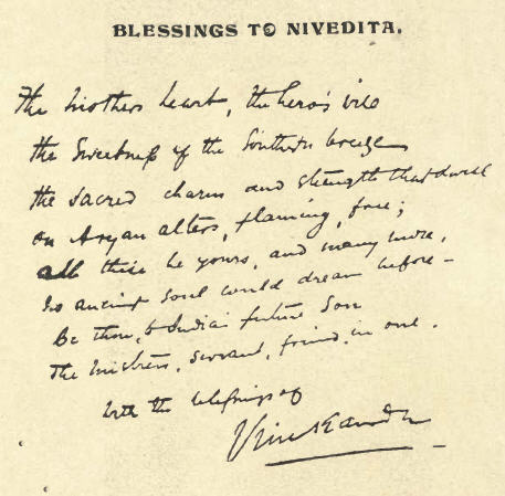 This is a manuscript of an English poetry written by Swami Vivekananda (1863-1902). The full poetry is: The mother's heart, the hero's will, The sweetness of the southern breeze, The sacred charm and strength that dwell On Aryan altars, flaming, free; All these be yours, and many more No ancient soul could dream before -- Be thou to India's future son The mistress, servant, friend in one. With the blessings of Vivekananda